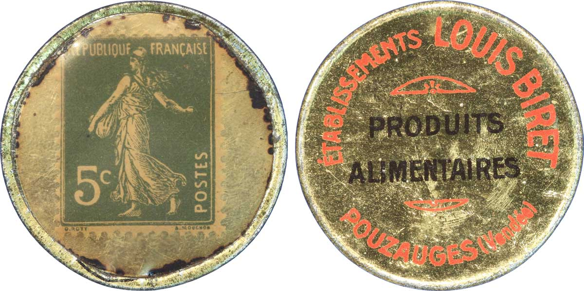 Etablissements Louis Biret, timbre de 5 centimes. Les timbres-monnaies sont des monnaies de nécessité qui furent utilisées pour suppléer dans la circulation monétaire défaillante en espèces divisionnaires. Les premiers timbres-monnaies apparurent au second trimestre de l'année 1920. Le brevet de fabrication des timbres monnaies (FYP) est daté du 19 mars 1920. La fabrication semble avoir duré trois années environ. Des timbres de 5 centimes à 35 centimes furent employés pour fabriquer des timbres monnaies. Le 35 centimes violet est très rare et fut peu utilisé. On rencontre surtout sur les timbres-monnaies les valeurs de 5 et de 10 centimes. Les tirages, excepté ceux du Crédit Lyonnais, sont très faibles, mais ne peuvent être inférieurs à 1.000 pièces. Ils ne furent jamais reconnus par l'administration et ils furent mis en circulation à l'instigation de firmes privées, moyen publicitaire en même temps que monnaie de substitution afin de remplacer les pièces divisionnaires disparues ou thésaurisées